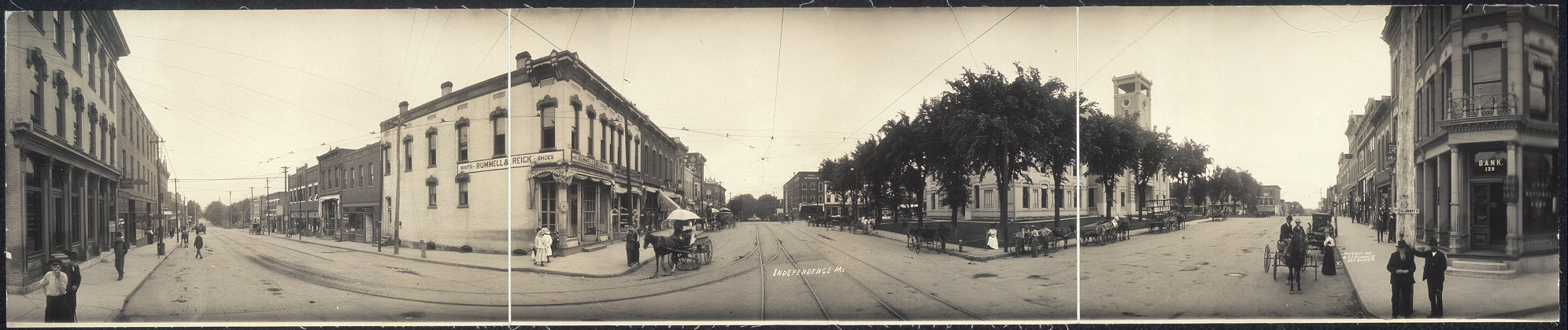 Panoramic view of Independence, Missouri, USA, c. 1909